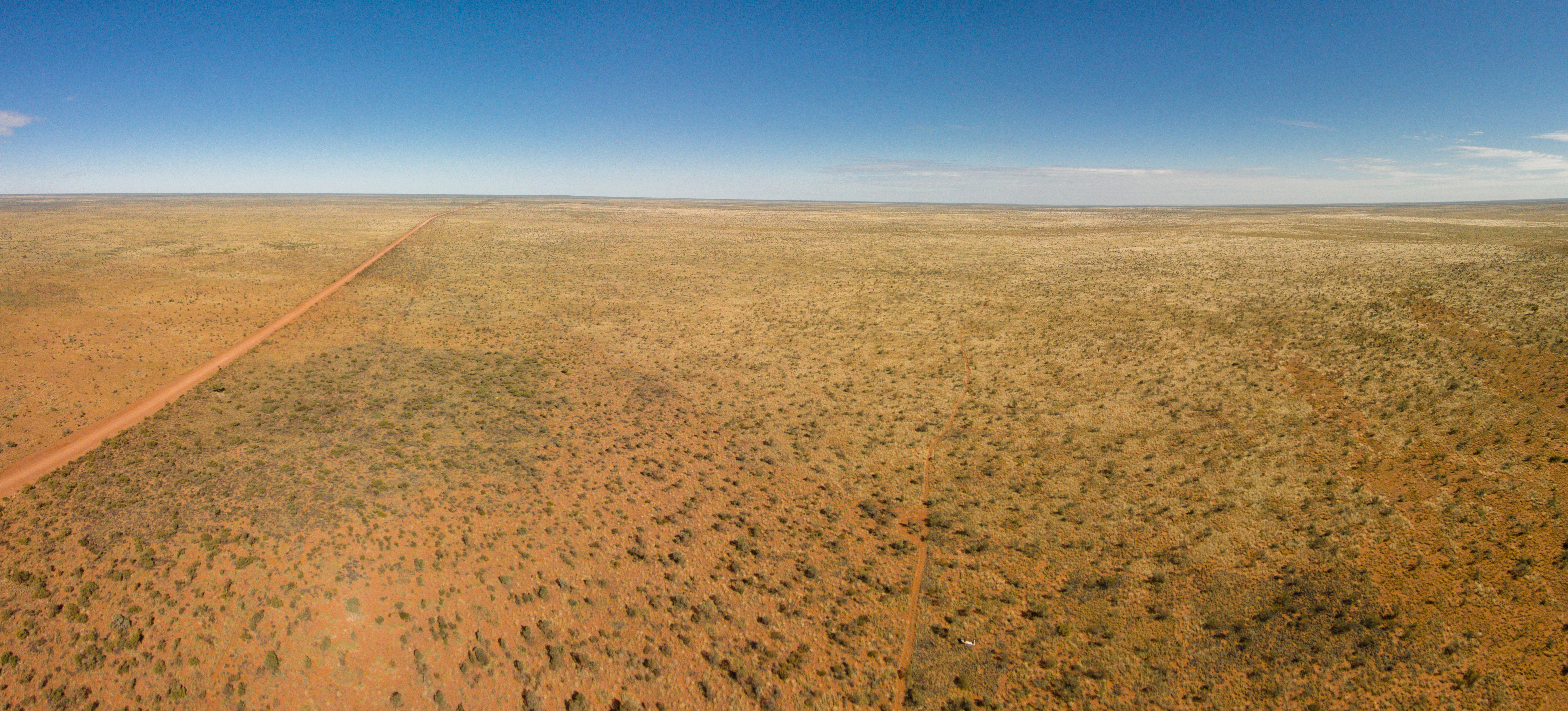 Tanami Desert Panorama GPS 21°16'39”S, 130°50'51”E